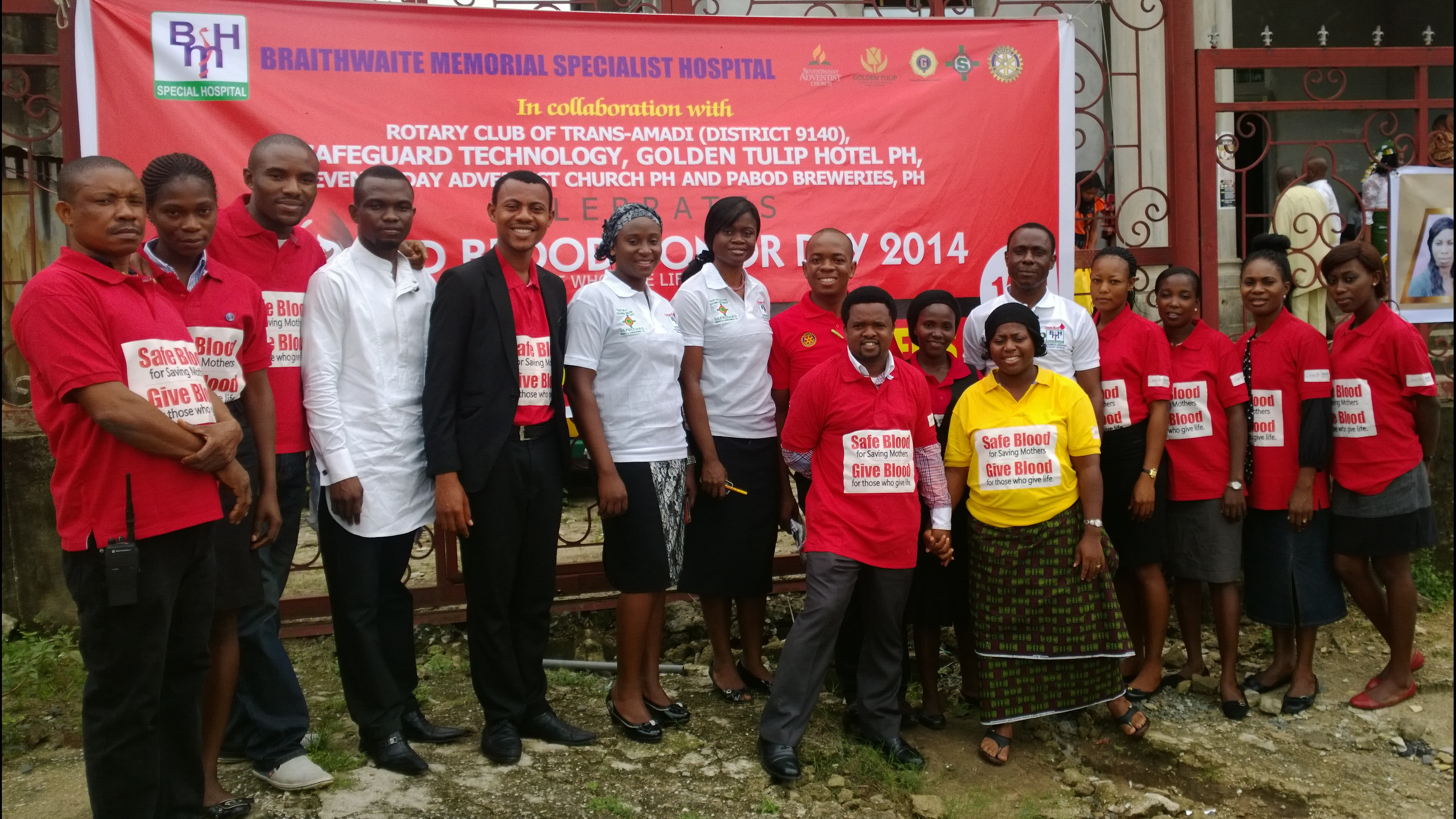 Give blood to those who give life